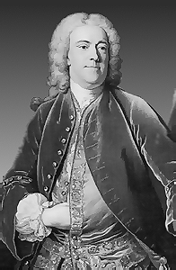 Stephen Poyntz (1685-1750) british diplomat